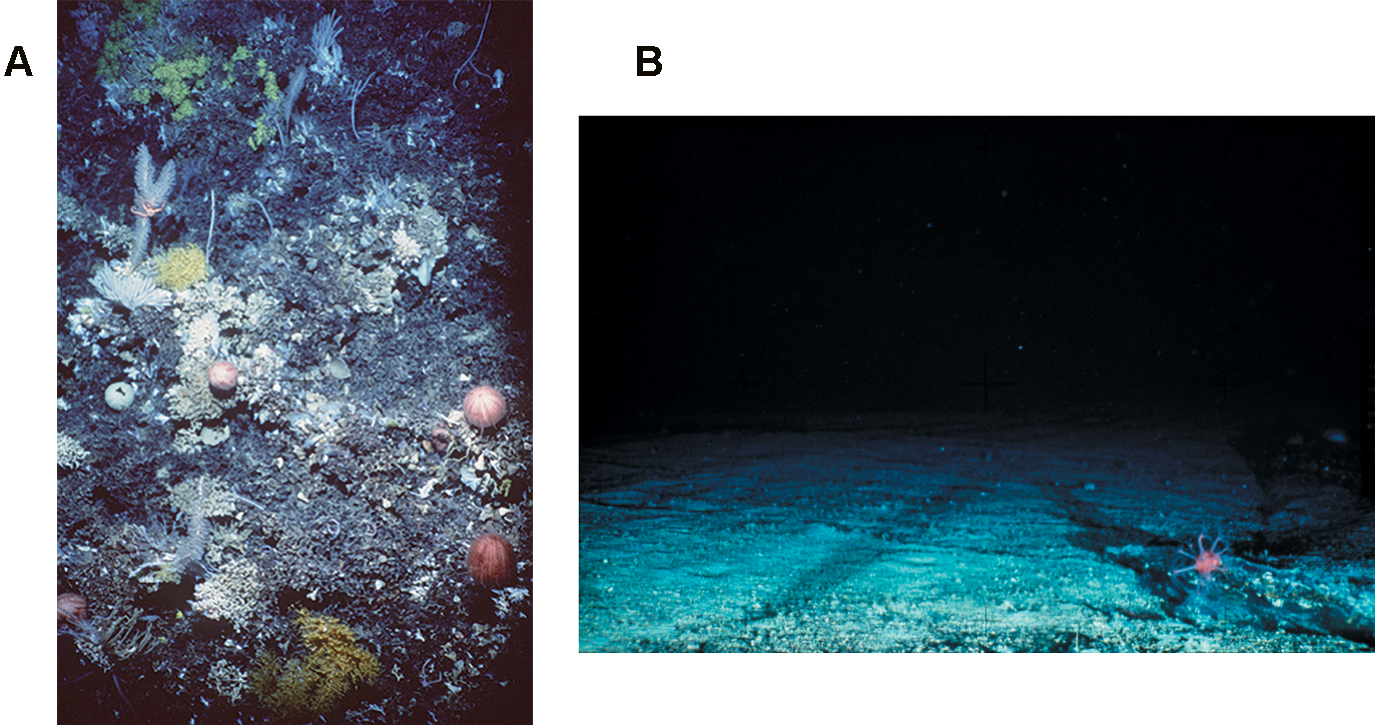 The Effect of Trawling the Seafloor for Groundfish. (A) The coral community and seabed on an untrawled seamount. (B) The exposed bedrock of a trawled seamount. Both are 1,000–2,000 meters (1094–2188 yards) below the surface.